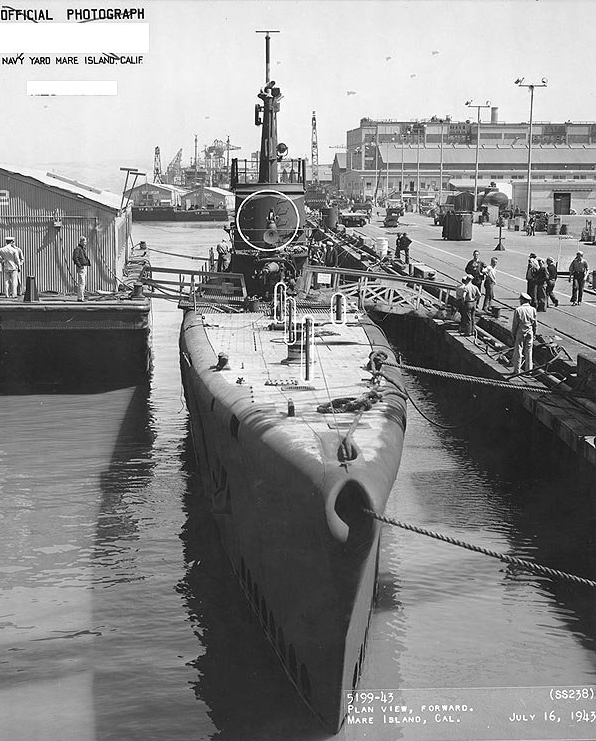 Wahoo (SS-238), at Mare Island Navy Yard, CA., 16 July 1943. Circles mark recent alterations to the submarine. The lighter YC-312 is alongside. YF-239 and YF-200 are in the left-center distance.